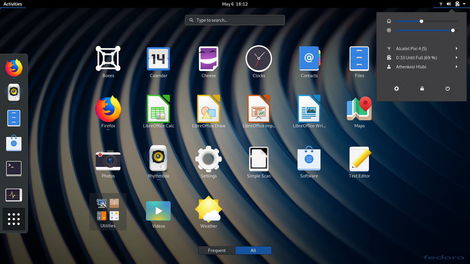 Gnome shell with an updated appearance.